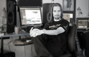 Picture of Finnish musician Hannu Honkonen.